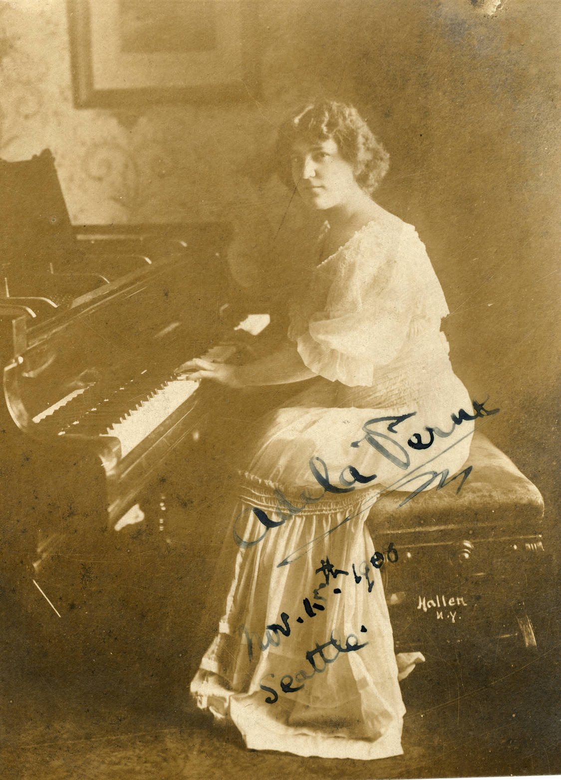 Adela Verne, concert pianist Subjects: musicians